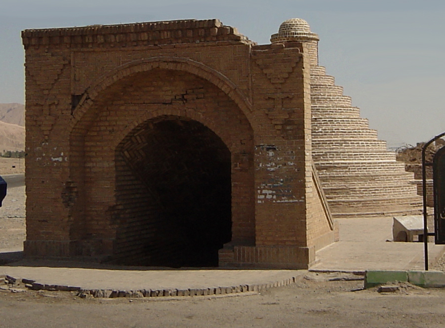 Old Reservoir in Aradan County, Semnan Province, Iran